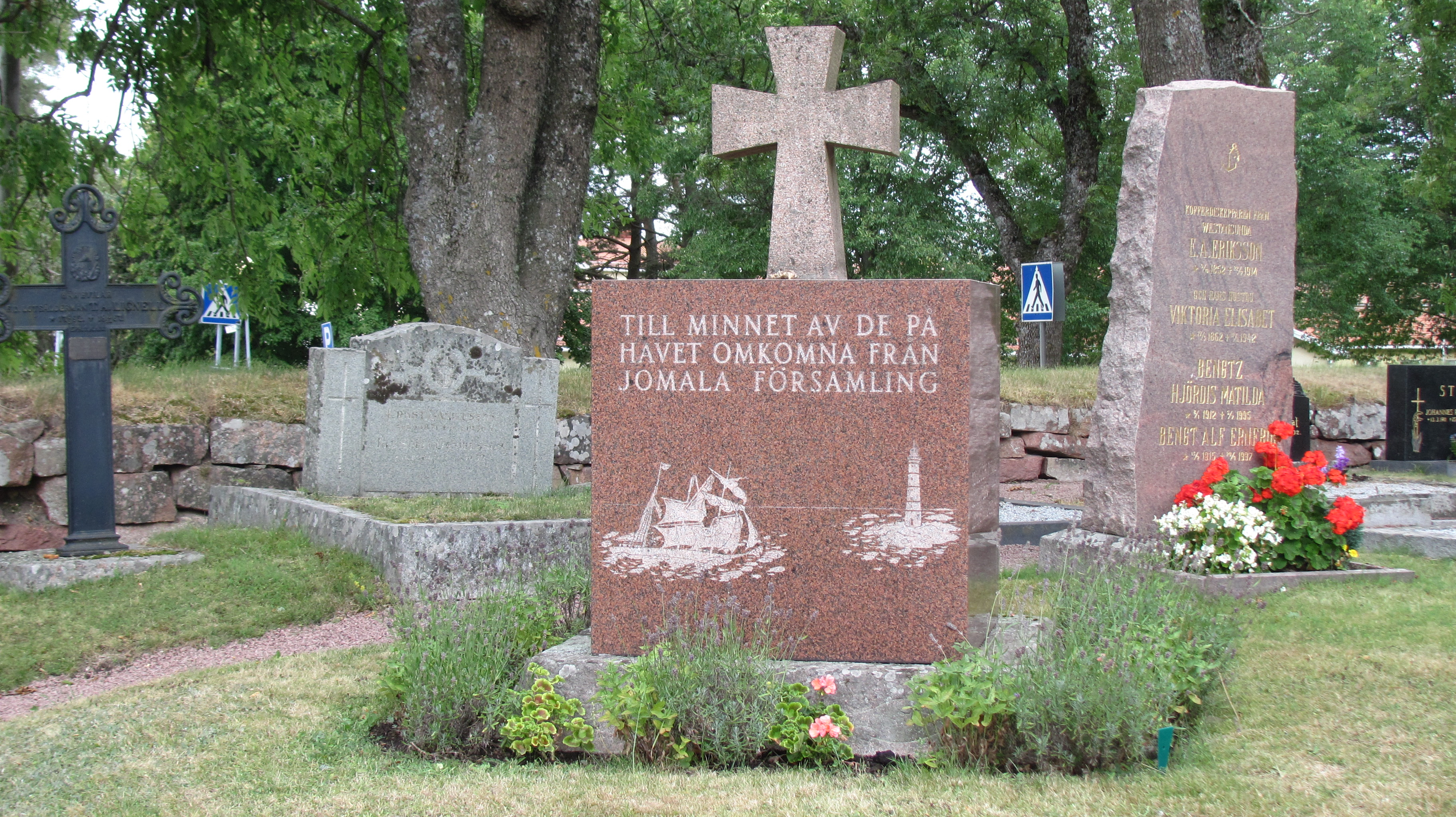 Sailors' Memorial, Jomala, Fasta Aland, Finland.